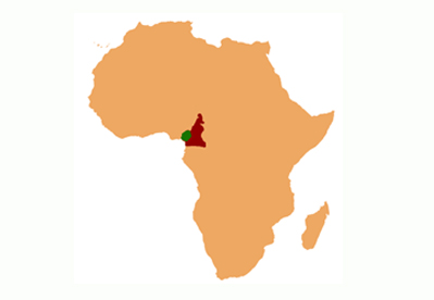 bakossi region